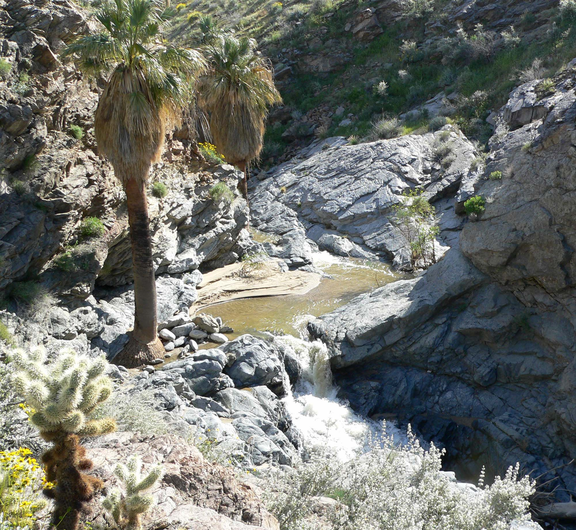 Photo of small waterfall in Palm Canyon, south of Palm Springs, California